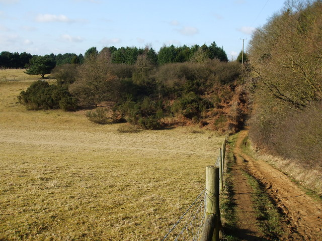 Fence line Edge of Maulden woods on the Greensand Ridge walk